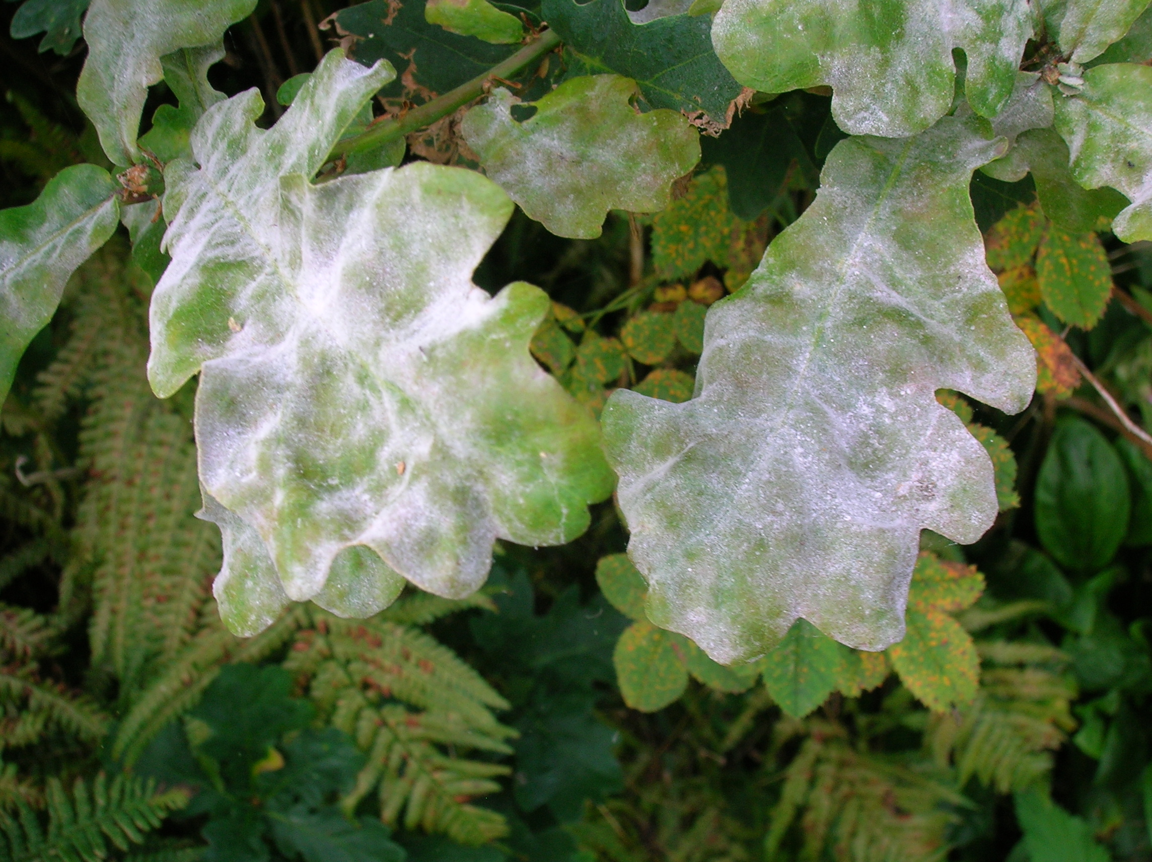 Oak Mildew on Q. robur caused by Microsphaera alphitoides. Chapeltoun, North Ayrshire, Scotland